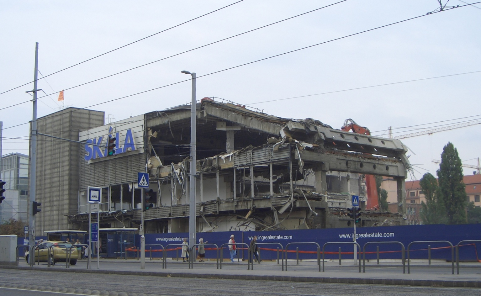 Demolition of SKALA Warehouse in Budapest 11th, on the September 27th, 2007.